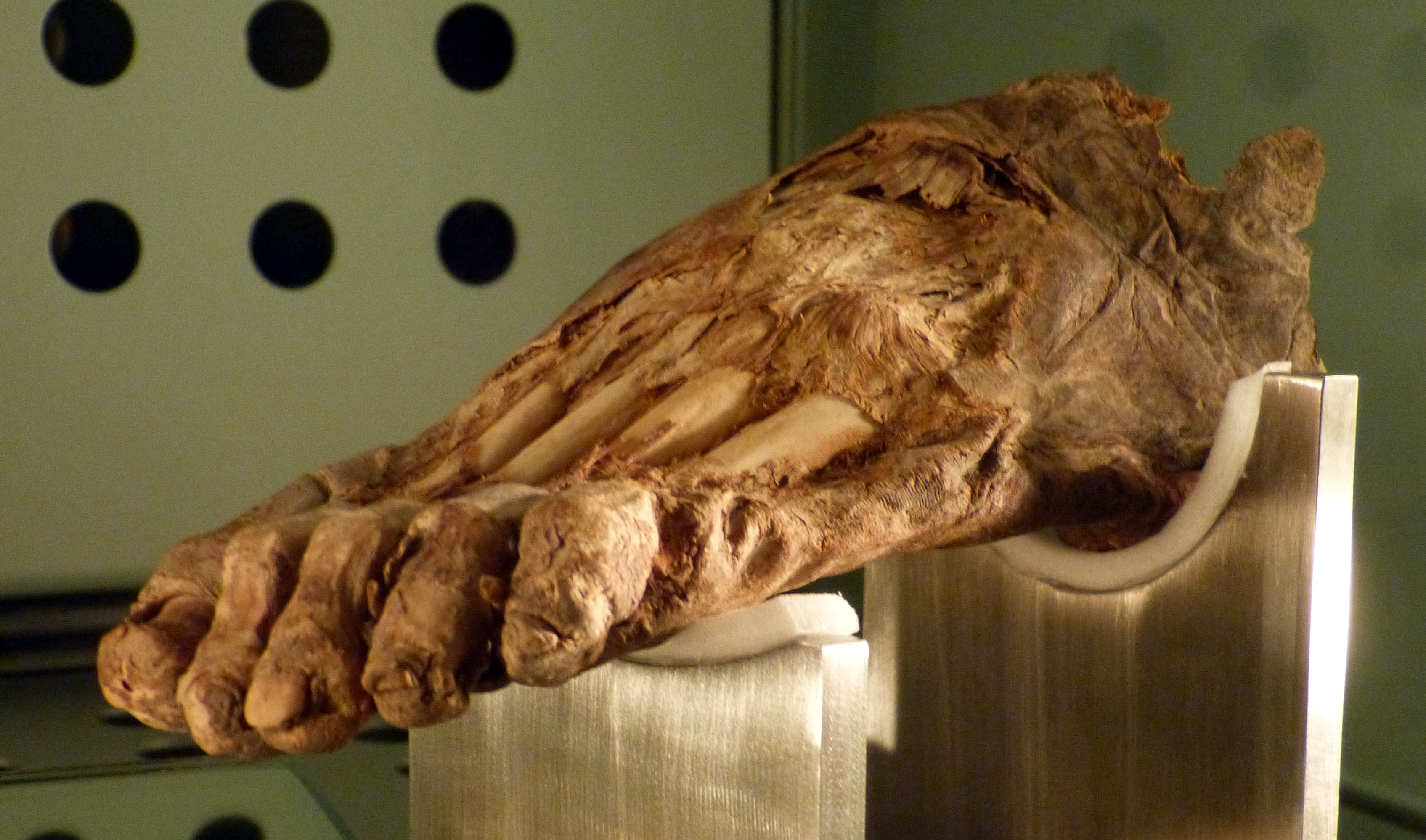 Santa Cruz de Tenerife ( Spain ). Museo de la Naturaleza y el Hombre - Guanche collections: Mummified human foot from Hoya Brunco ( La Guancha / Tenerife )